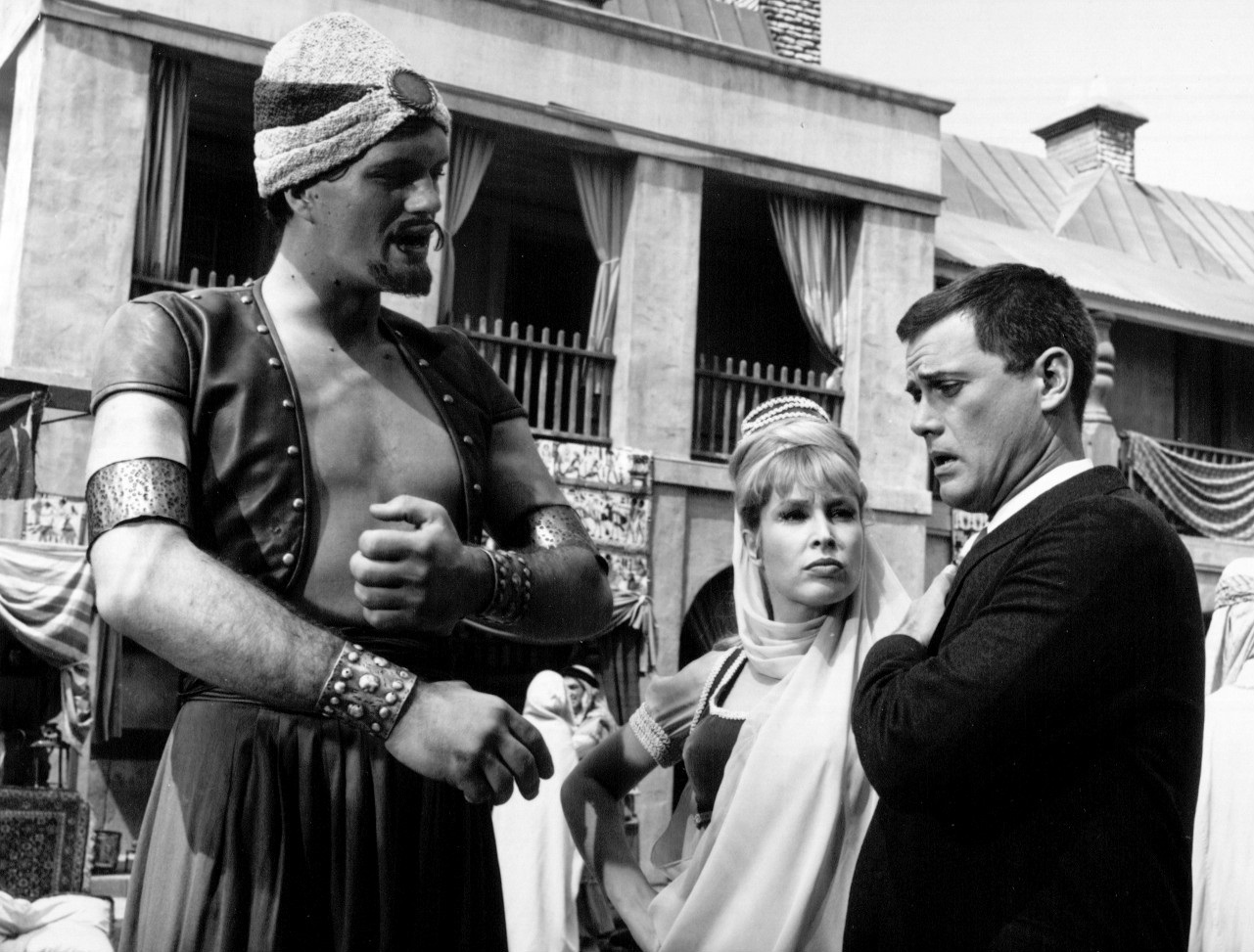 Photo of Richard Kiel as Ali with Barbara Eden and Larry Hagman as Jeannie and Tony in the "My Hero?" episode of I Dream of Jeannie.